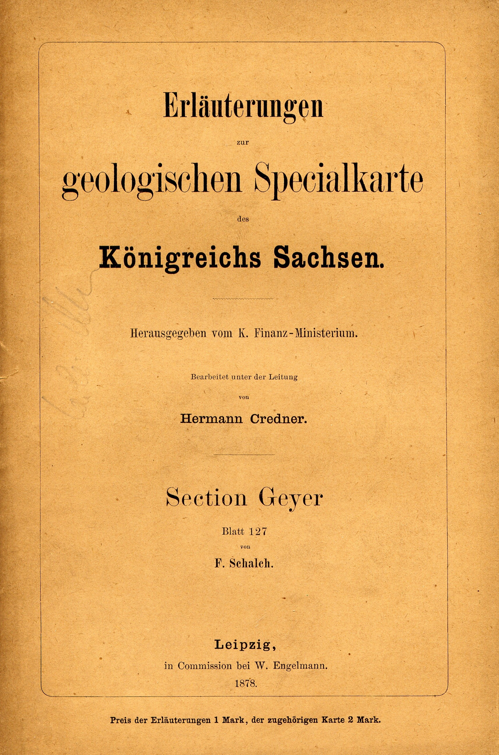 title page of F. Schalch: Erläuterungen zur geologischen Specialkarte des Königreichs Sachsen Section Geyer, sheet 127, Leipzig 1878